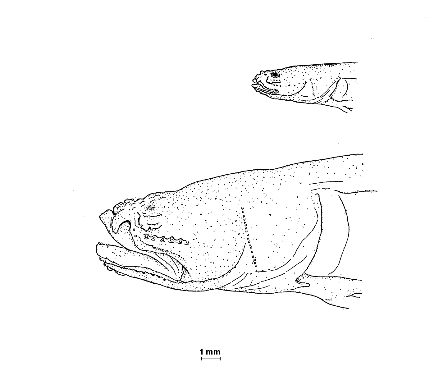 Heads of a juvenile (top) and adult (bottom) blind goby (Typhlogobius californiensis Steindachner, 1879)